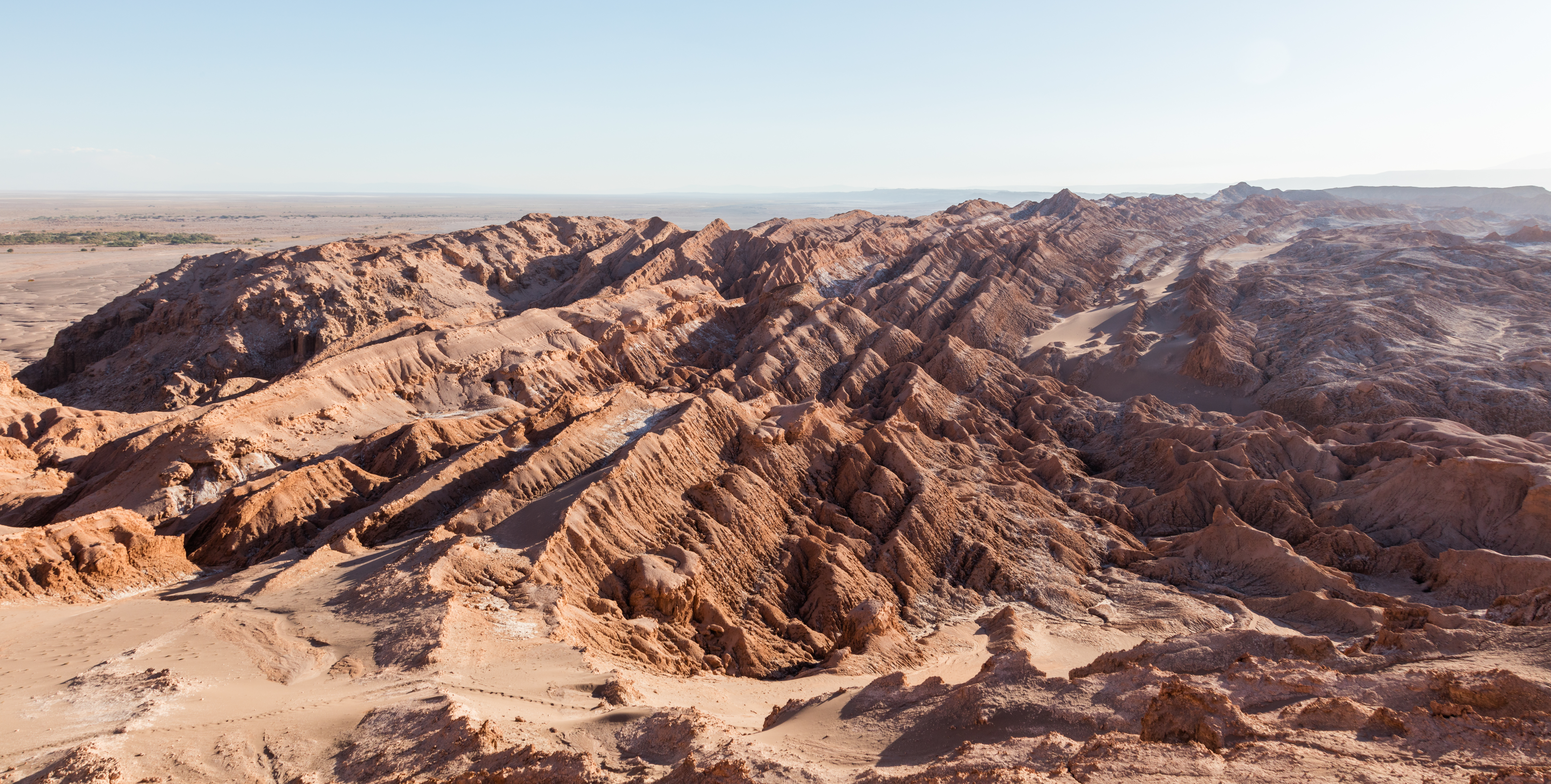 Cordillera de la Sal, San Pedro de Atacama, Chile